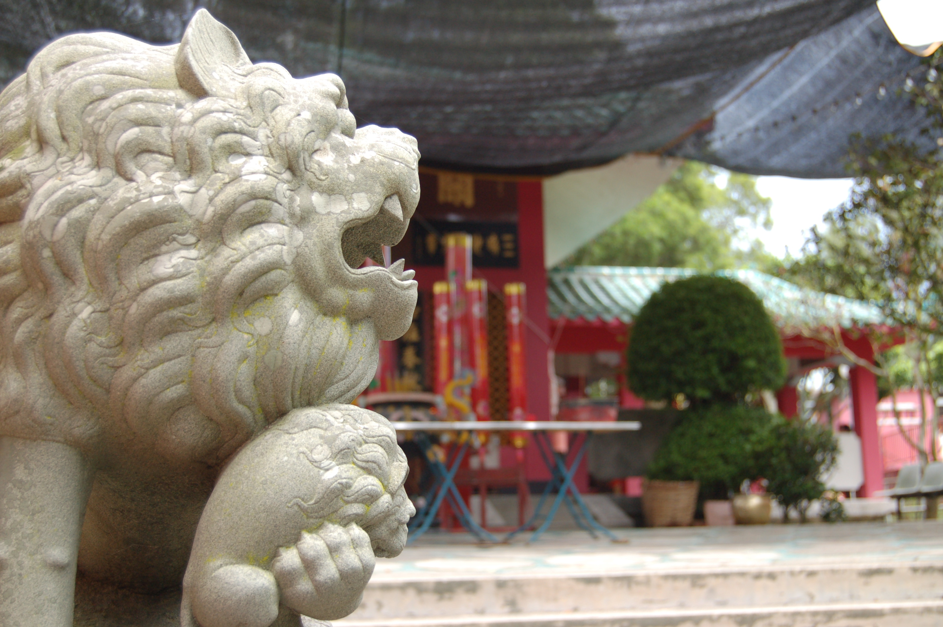 Own photo, from [1], taken by Matt Mayer on Cheung Chau island, Hong Kong.